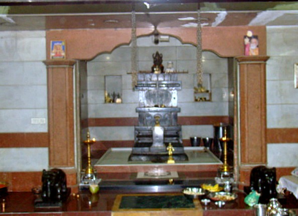 This has completed 45 years.